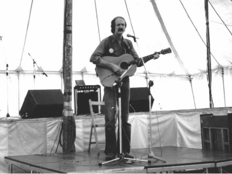 Bill Boazman (Sonny Black) at Bracknell Folk Festival